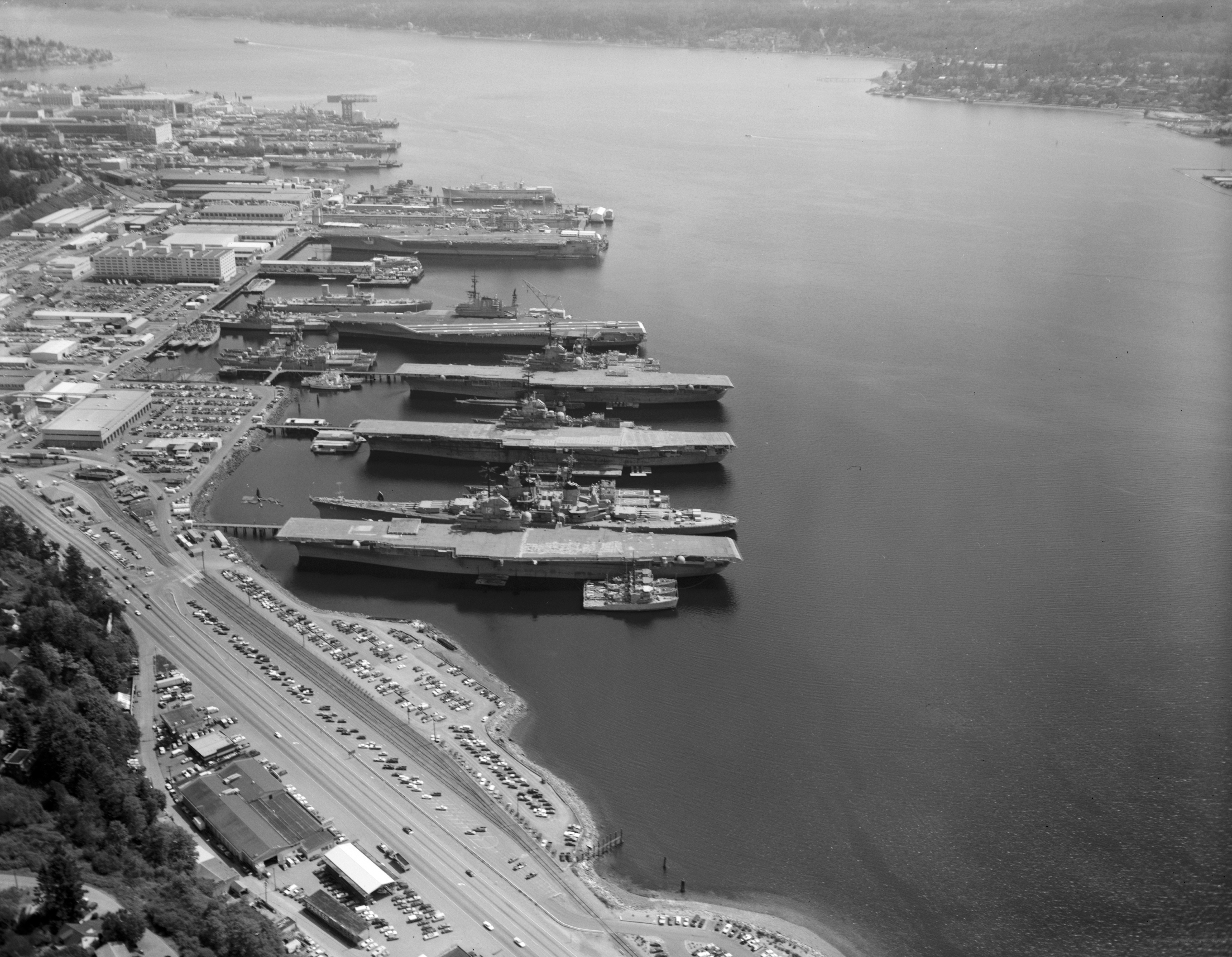 View of the Puget Sound Naval Shipyard at Bremerton, Washington (USA), in August 1992. The following ships are identifiable (front to back): Three Agile-class minesweepers, with USS Pluck (MSO-464) as the first in the row; USS Hornet (CVS-12); USS New Jersey (BB-62); USS Roark (FF-1053); USS Stein (FF-1065); USS Oriskany (CV-34) with a Knox-class frigate; two Asheville-class gunboats; USS Bennington (CVS-20) with an old WWII-submarine alongside; USS Midway (CV-41) with six Knox-class frigates. The active carriers USS Nimitz (CVN-68) and USS Carl Vinson (CVN-70) are visible in the background.